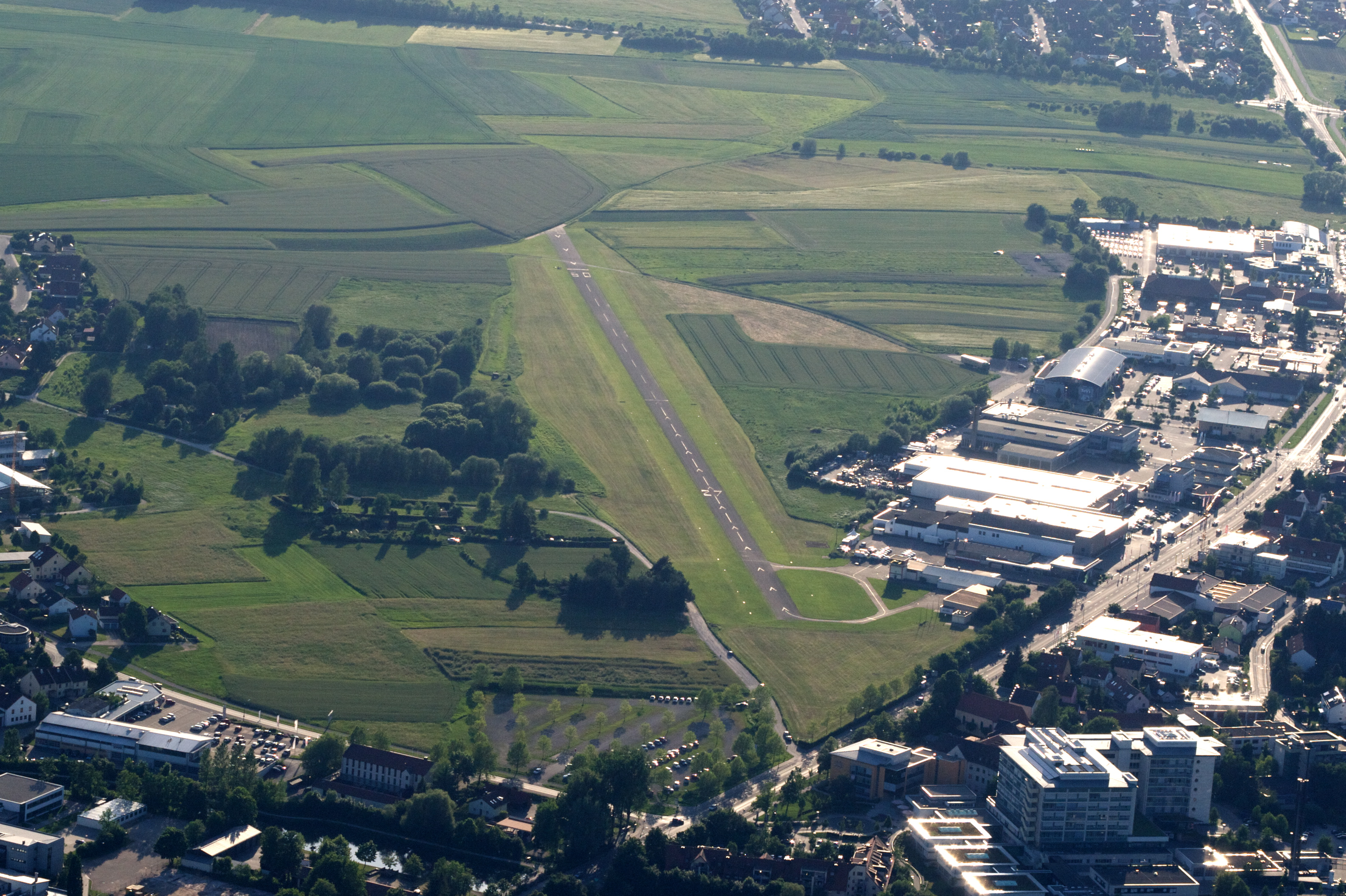 Airphoto Neumarkt Airfield